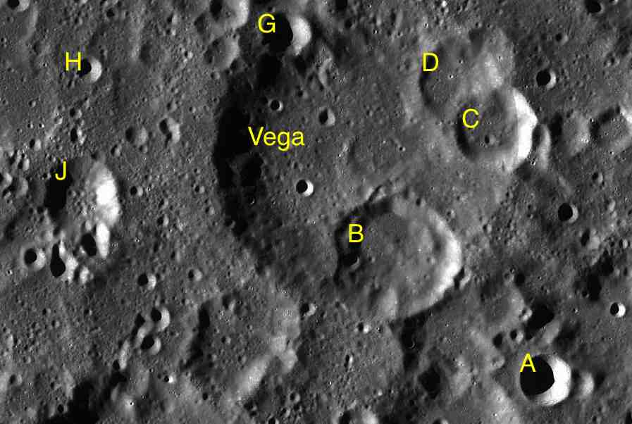 Part of LAC-115 chart used for the presentation.